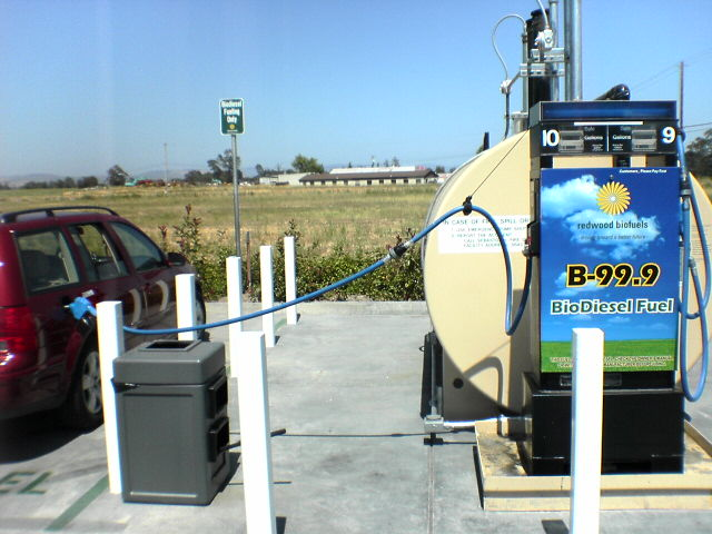 A Jetta wagon being fueled with Biodiesel. Note that using more than the recommended proportion of biodiesel/petrodiesel is not recommended. Photo obtained from taken by user le. Original here: Licensed under Creative Commons.